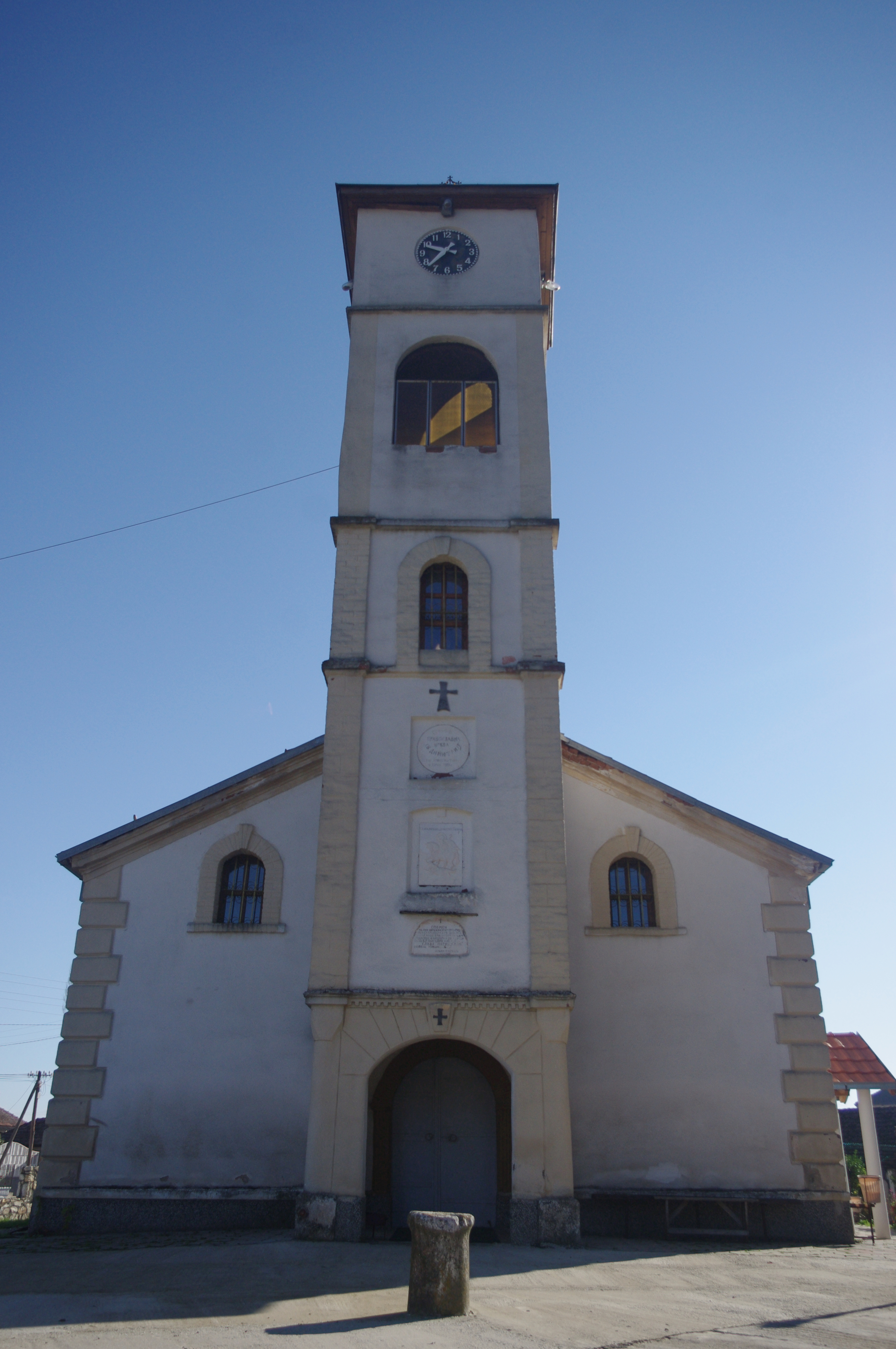 Кривогаштанската црква со антички столб пред неа